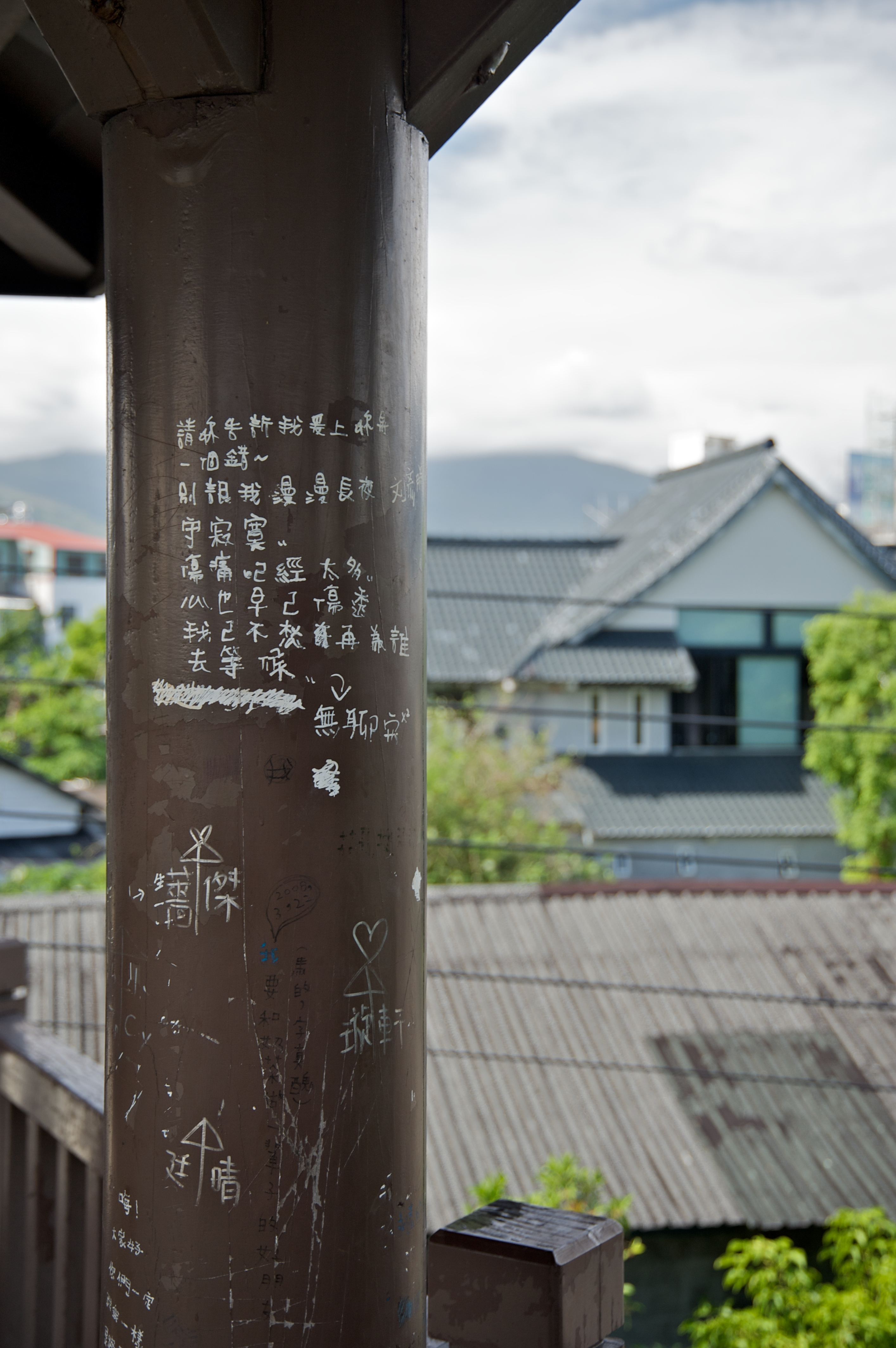 Street Art in poetic form in Hualient City, Hualient County.